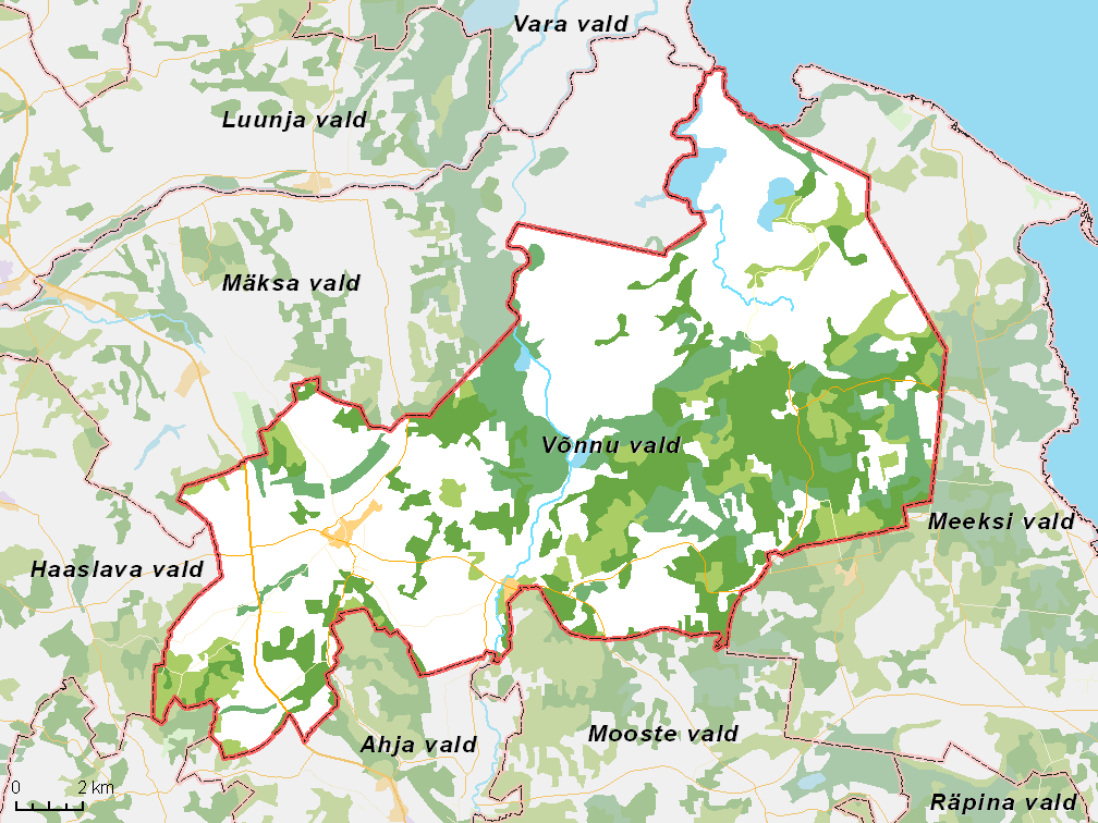 Map of municipality in Estonia